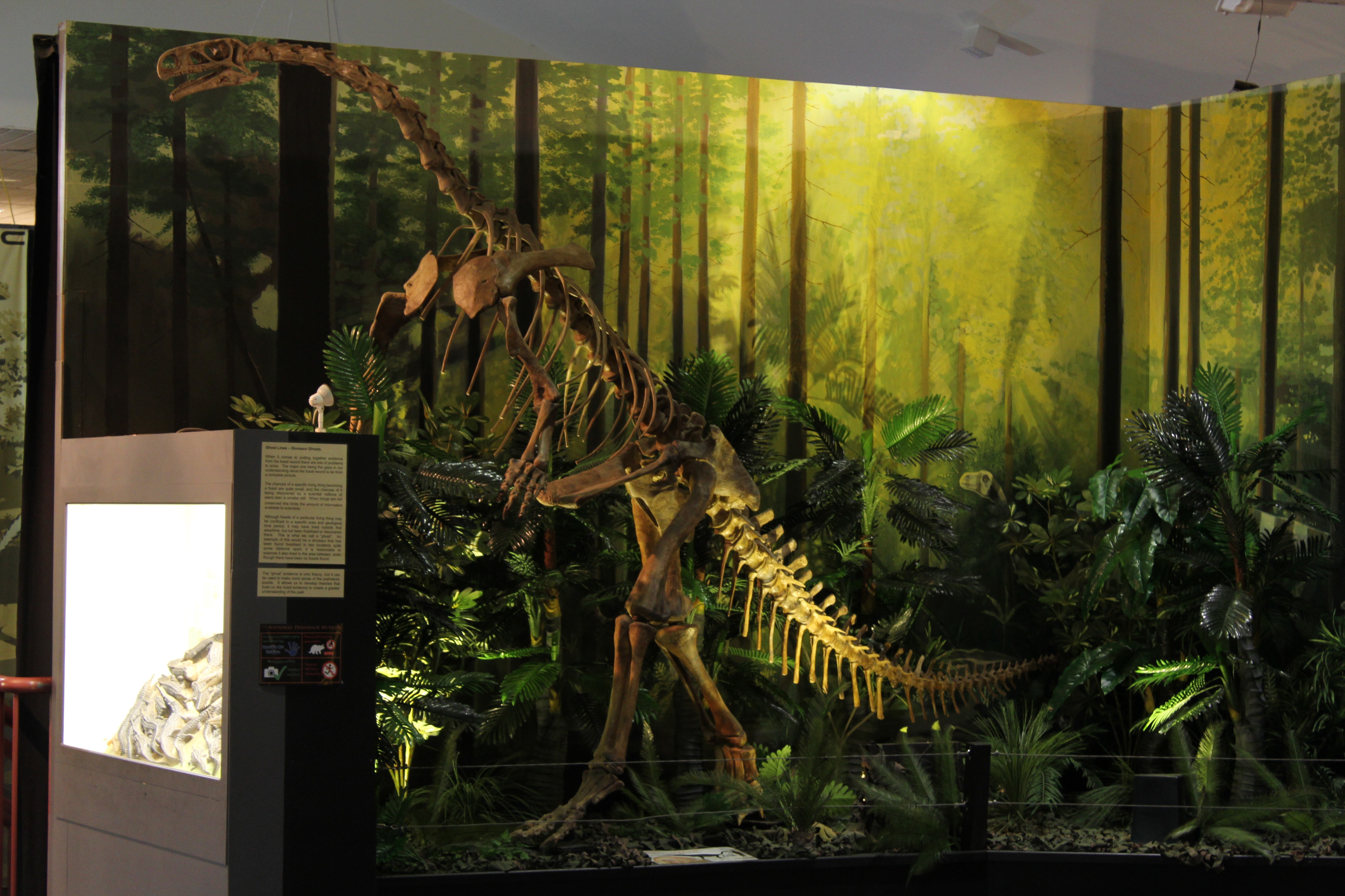 Plateosaurus engelhardti skeleton